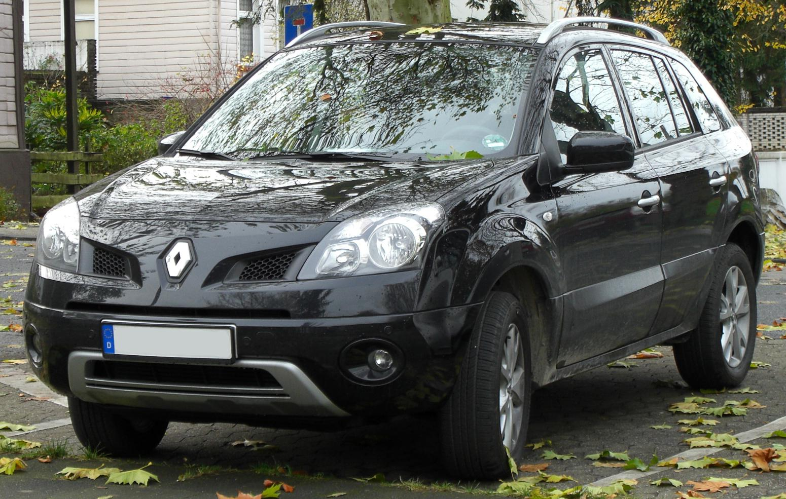 Description: Renault Koleos Source: Matthias Other Version(s)